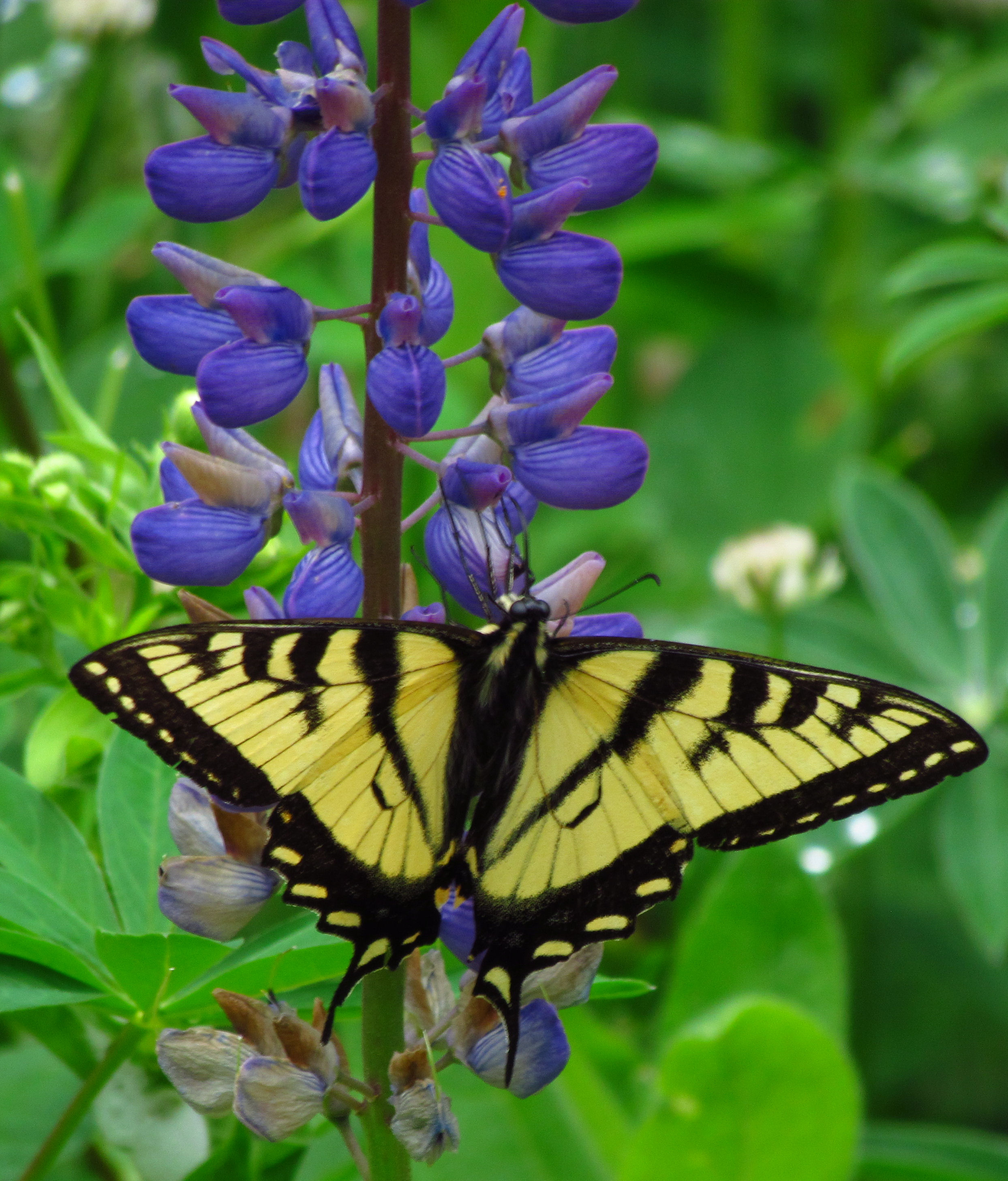 Canadian Tiger Swallowtail (Papilio canadensis) on flowers of a Lupine (Lupinus sp., probably L. polyphyllus), Gatineau Park, Quebec, Canada